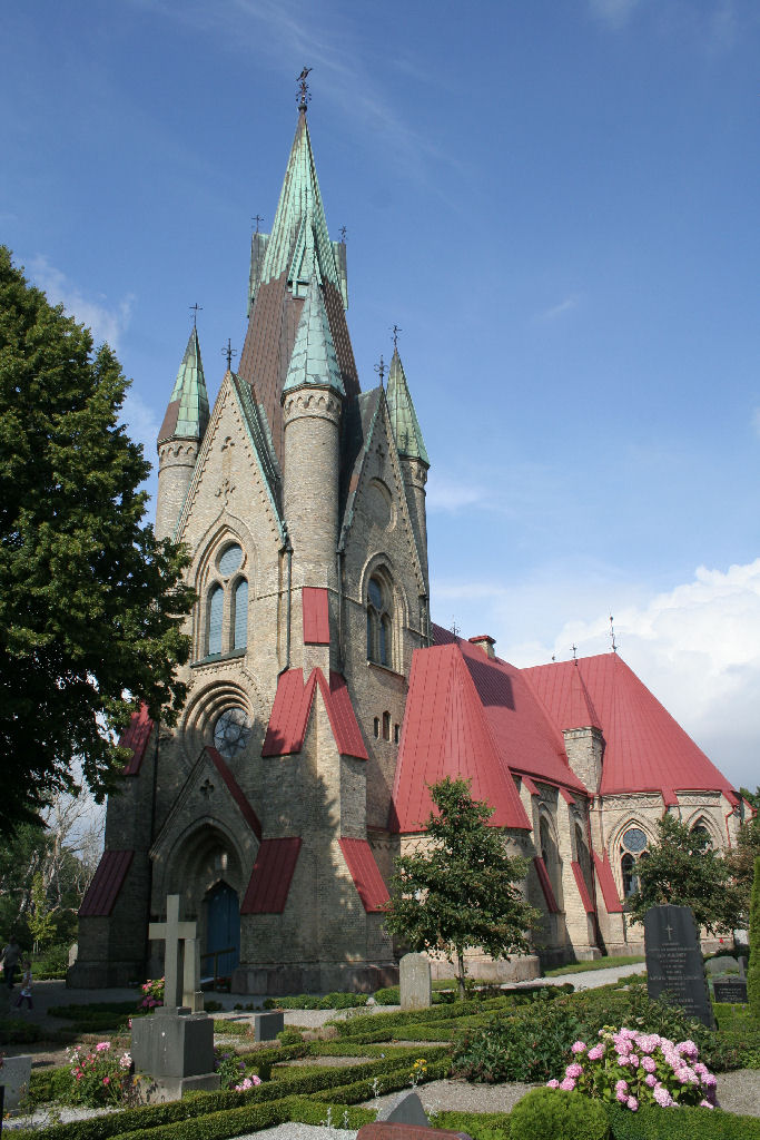 Church in Håslöv, Sweden